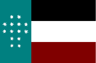 Redrawn from online image. Flag of the Republic of West Melanesia.